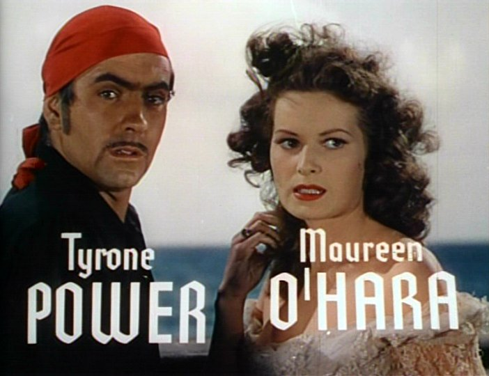 Tyrone Power and Maureen O'Hara in a screenshot from the trailer for the film The Black Swan.